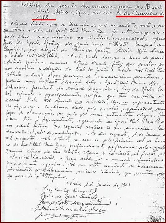 Facsimile of the Acts of Inauguration of Sport Club Beira-Mar, an association football club in Aveiro, Portugal